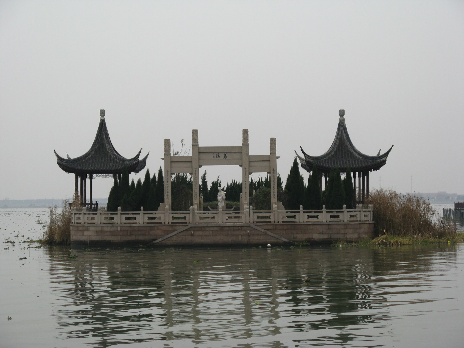 Concubine Chen Water Tomb in Jinxi，Jiangsu，China